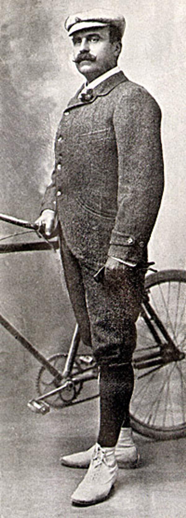 Jean André Castaigne (7 January 1861,[1] Angoulême, Charente[2] – 1929, Paris) was a French artist and engraver